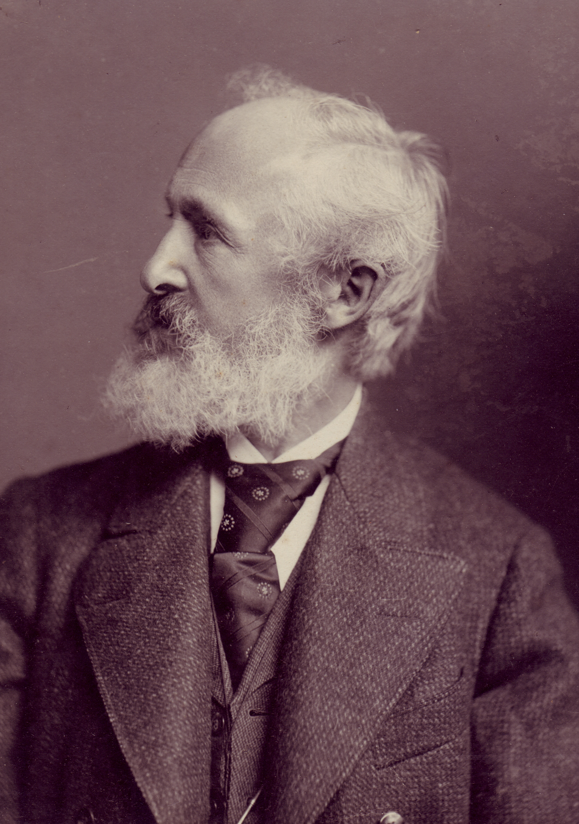 Christian Jensen portrait